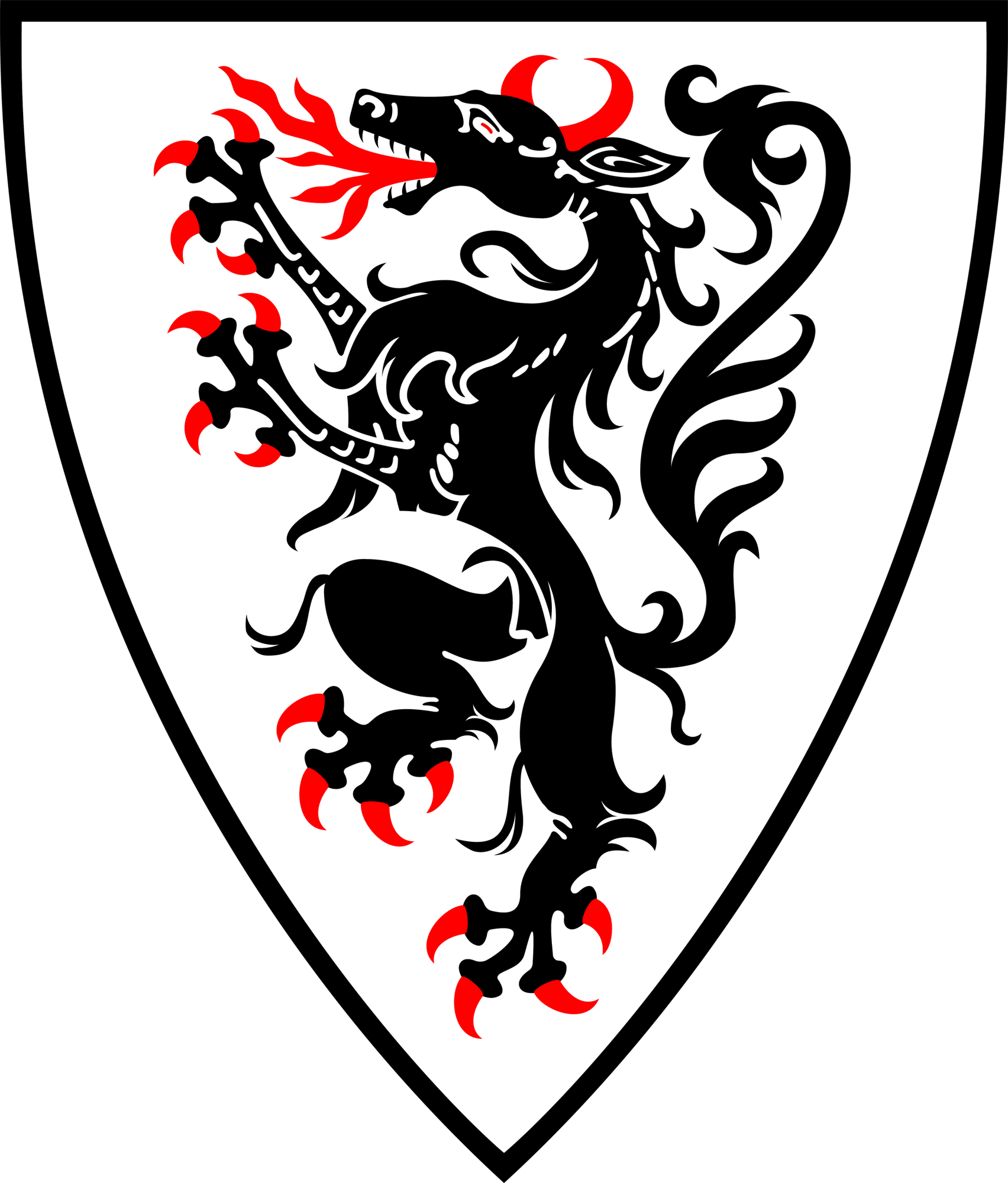 Black carantanian panther in shiled